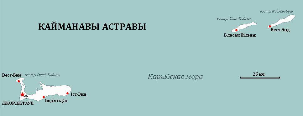 Map of Cayman in Belarusian